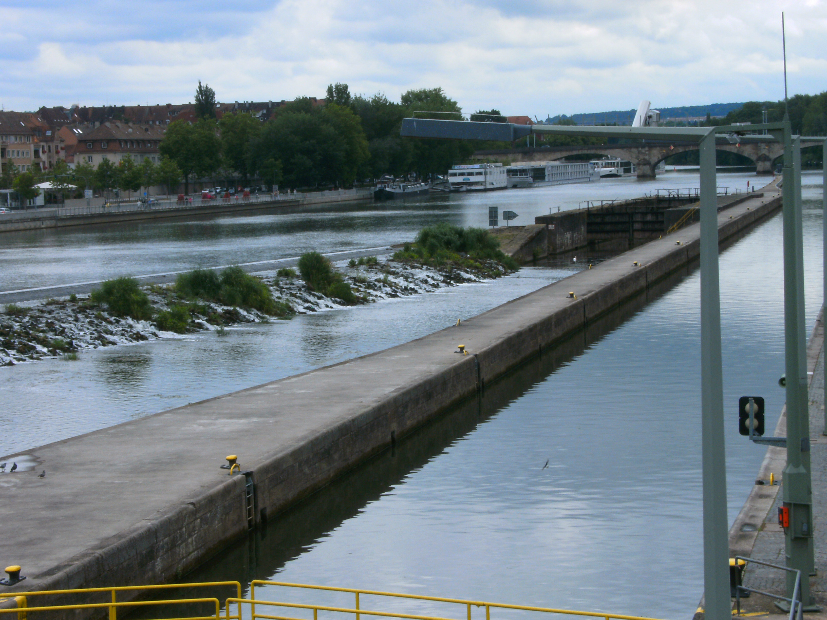 Würzburg, Alte Mainbrücke (bridge), lock chamber.